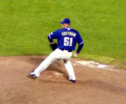 Trevor Hoffman pitches for the San Diego Padres in a MLB game against the Washington Nationals